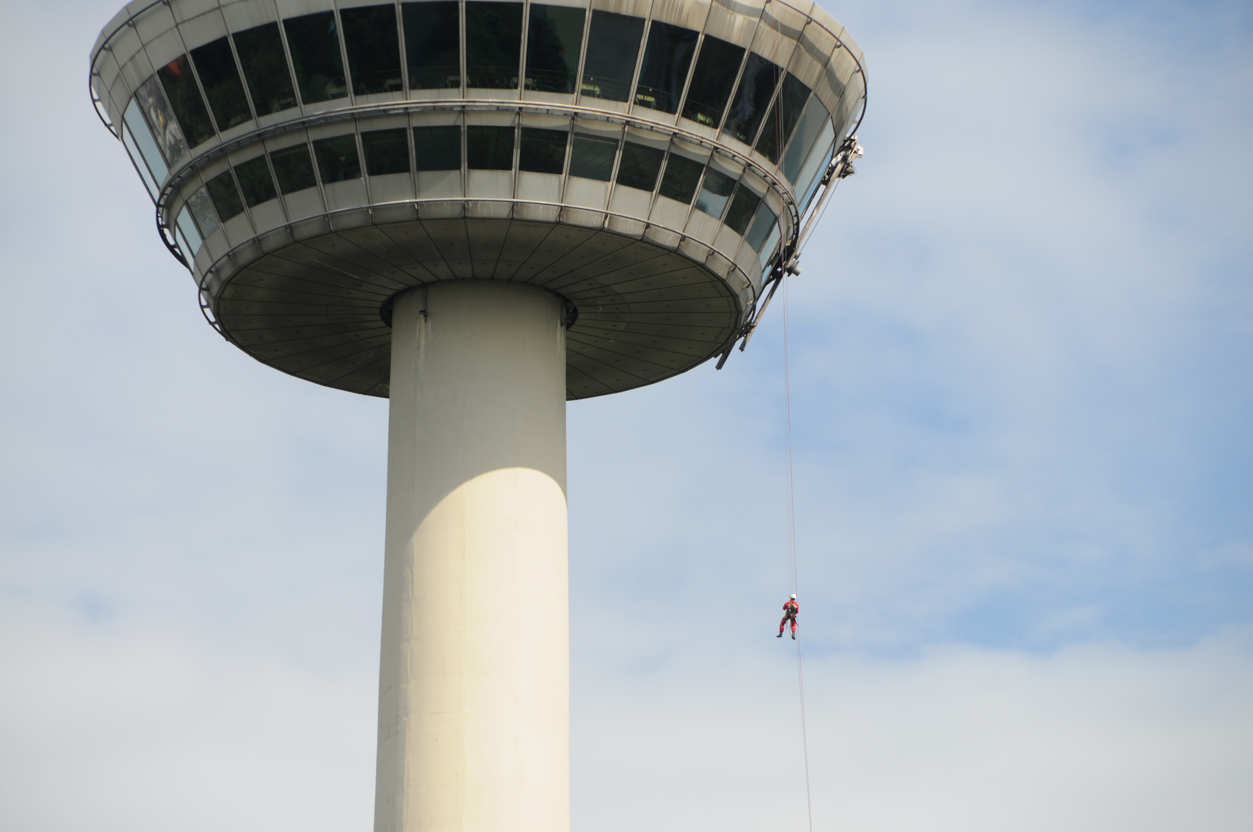 Communications tower Mannheim, Germany, emergency drill